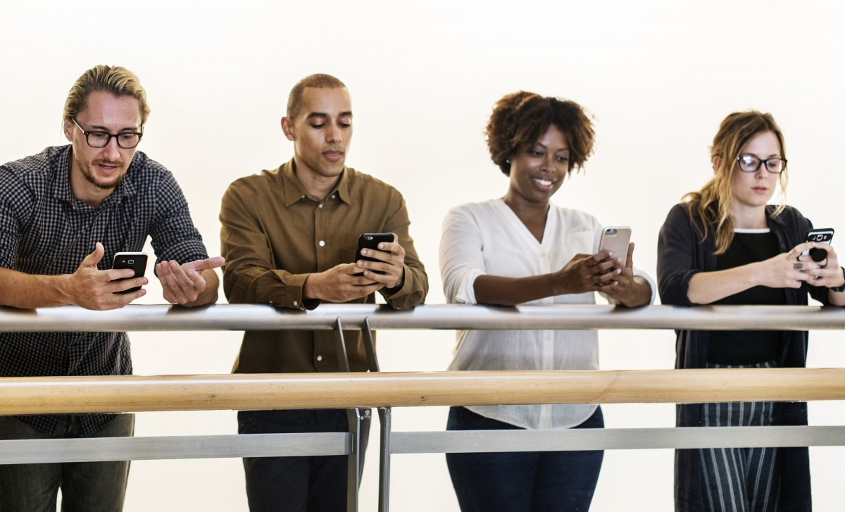 People using mobile phones